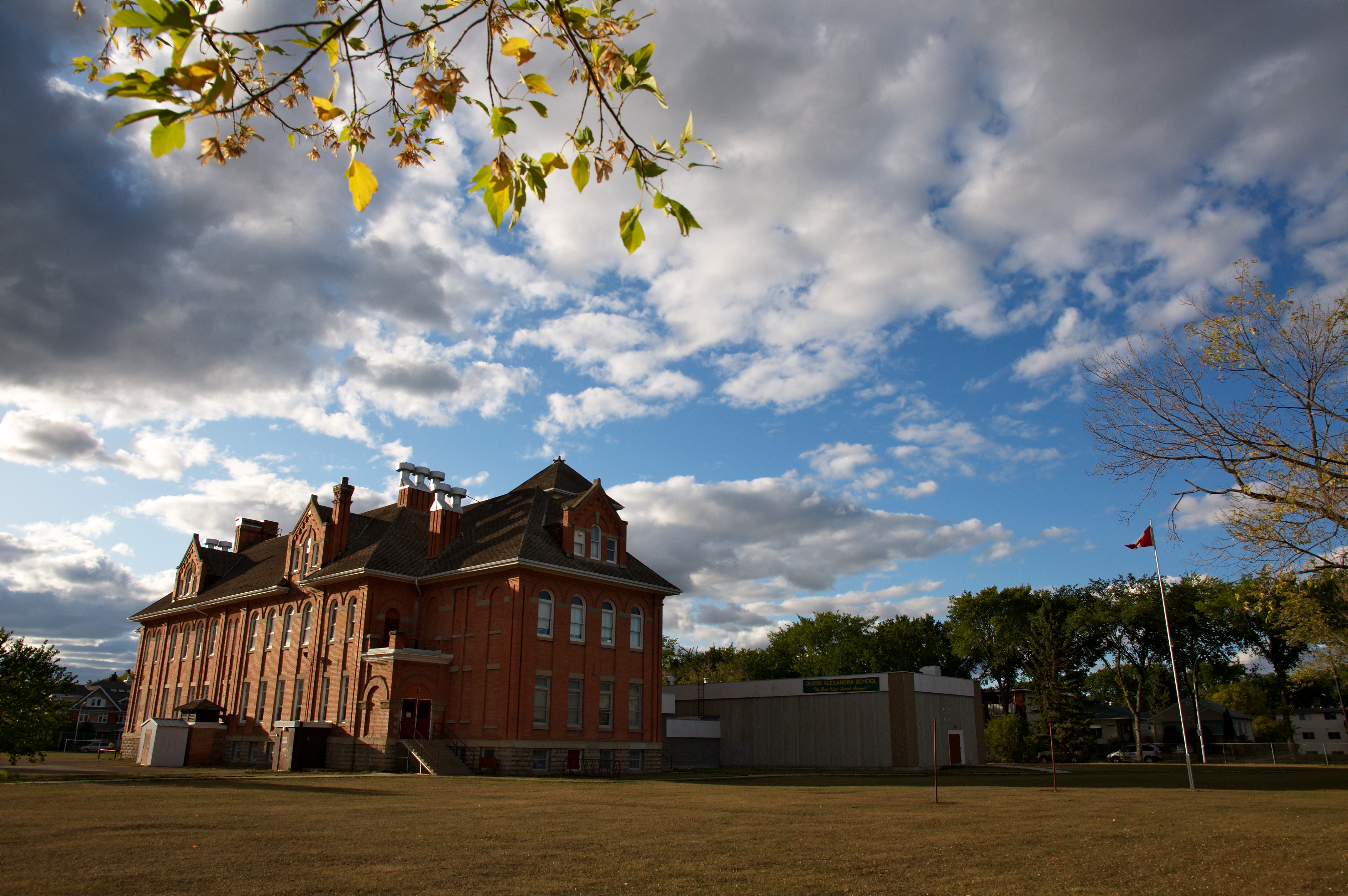 Photo of Queen Alexandra Elementary School taken from 106 Street looking west. Located in Edmonton Alberta Canada.